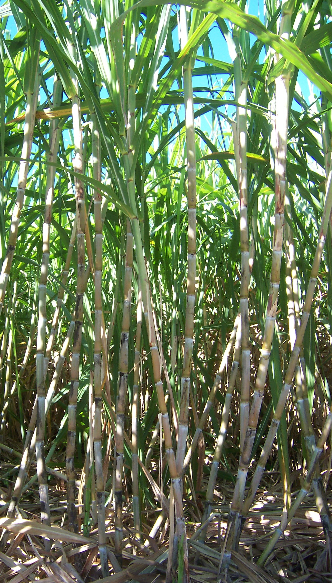 canes of Saccharum officinarum on Réunionisland